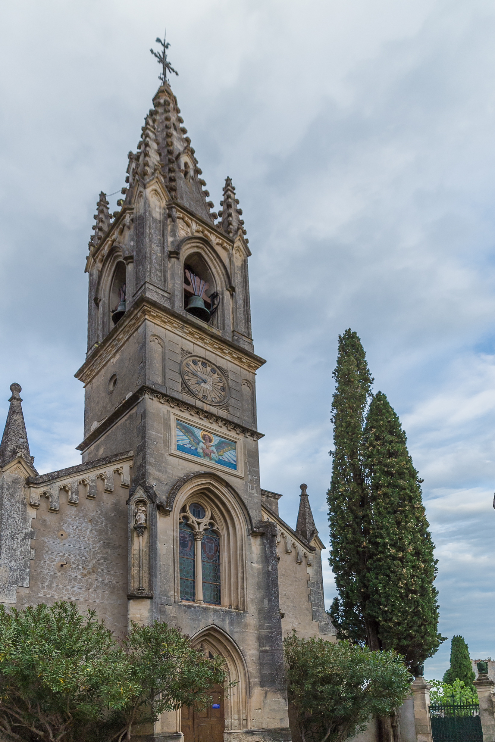 West face of the Saint-Roch church of Aiguèze, France.